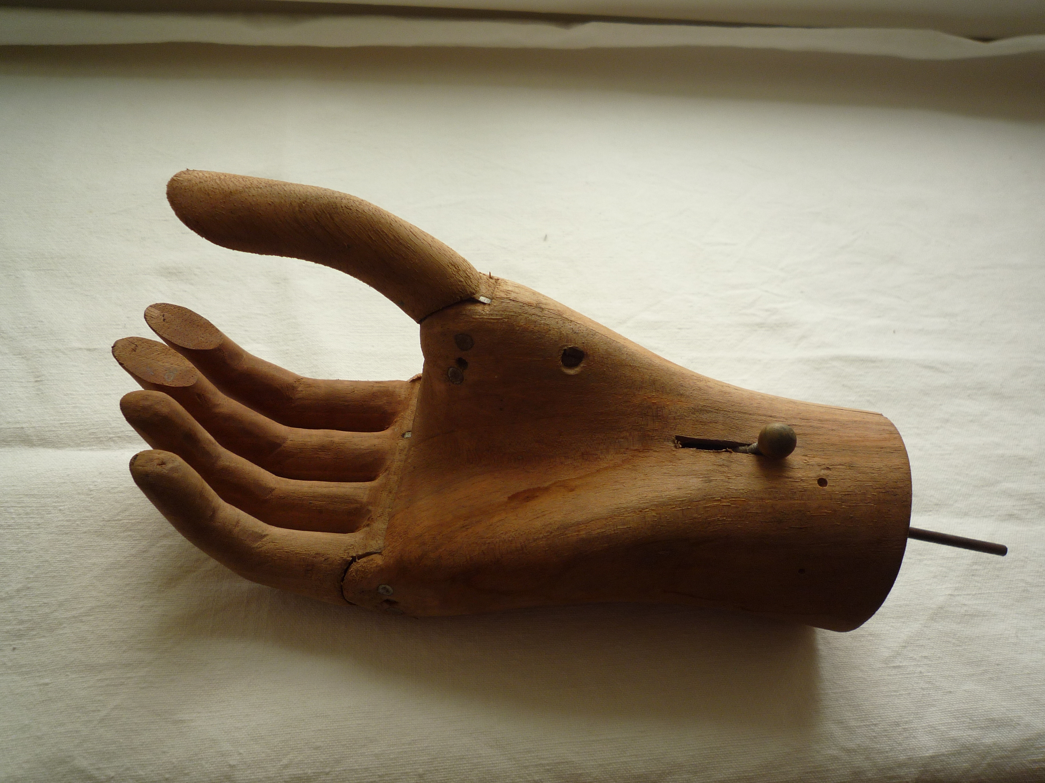 Articicial hand desigend by Jakob Hüfner, unfinished